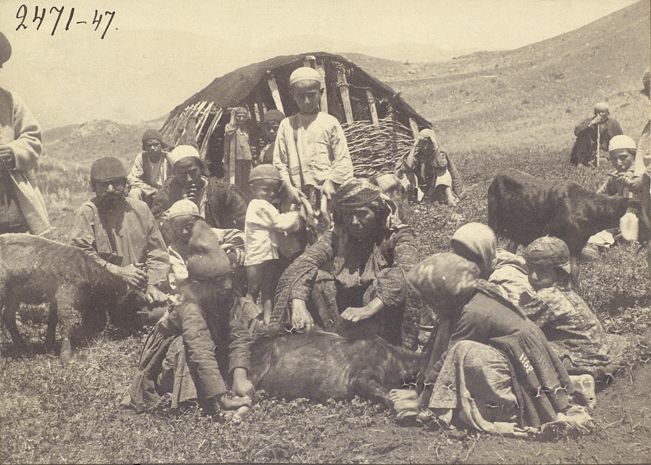 Talysh people in Iran